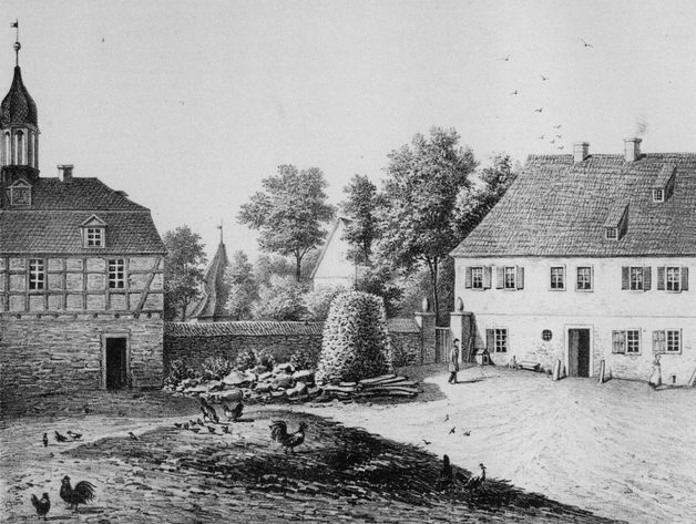 manor Troschenreuth, Saxony in its estate of 1859